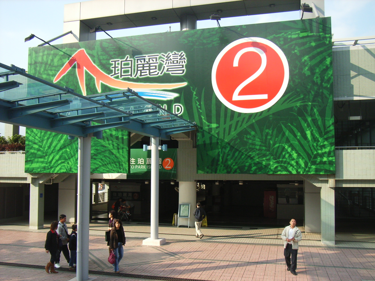 珀麗灣客運有限公司 (Park Island Transport Company Limited)，負責營辦zh:馬灣zh:珀麗灣的對外交通服務，現時共營辦兩條屋村巴士路線及兩條渡輪航線。公司由zh:載通國際及zh:港九小輪共同創立及營運，並在zh:2005年zh:12月14日成為香港上市公司載通國際的全資附屬機構。 Photo created by User:HungBEER.